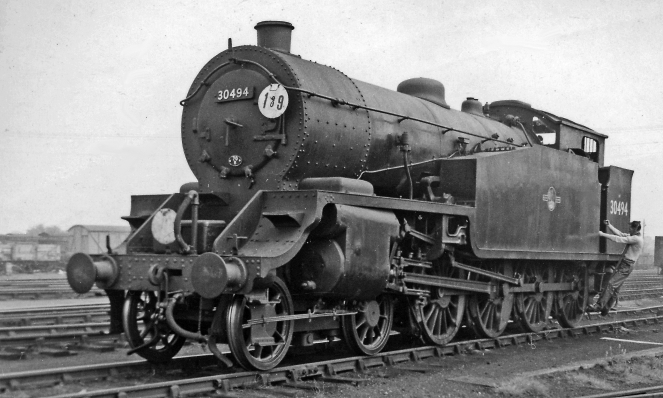 Ex-LSWR 4-8-0T hump shunter in Feltham Yard. Seen somewhere in this great Marshalling Yard (built 1922, swept away 1969), No. 30494 (built 8/21, withdrawn 12/62) is one just four Urie G16 class 4-8-0Ts designed specially for this Yard. (See also TQ1173 : Feltham Marshalling Yard, with SR 4-8-0T shunting).